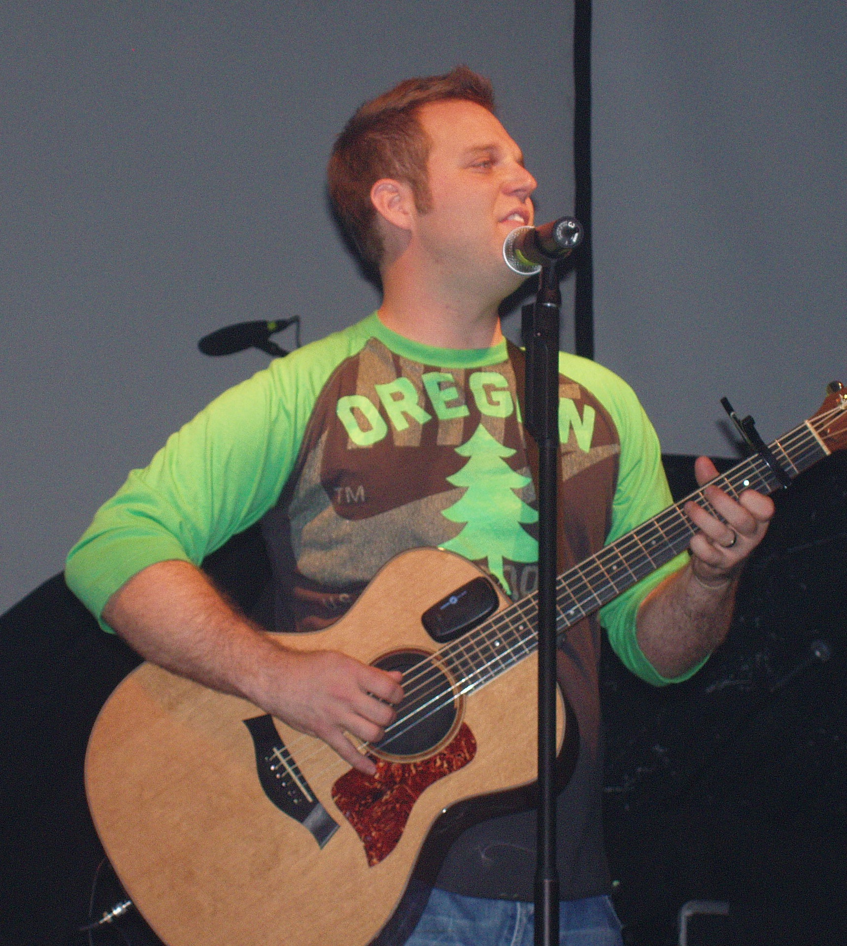 Original description from en.wikipedia: "Photo taken by me at a Matthew West concert in Eugene, OR on September 18, 2005 when he was on the History 101 Tour with Paul Wright and Shawn McDonald."